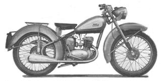 BSA D1 motorcycle